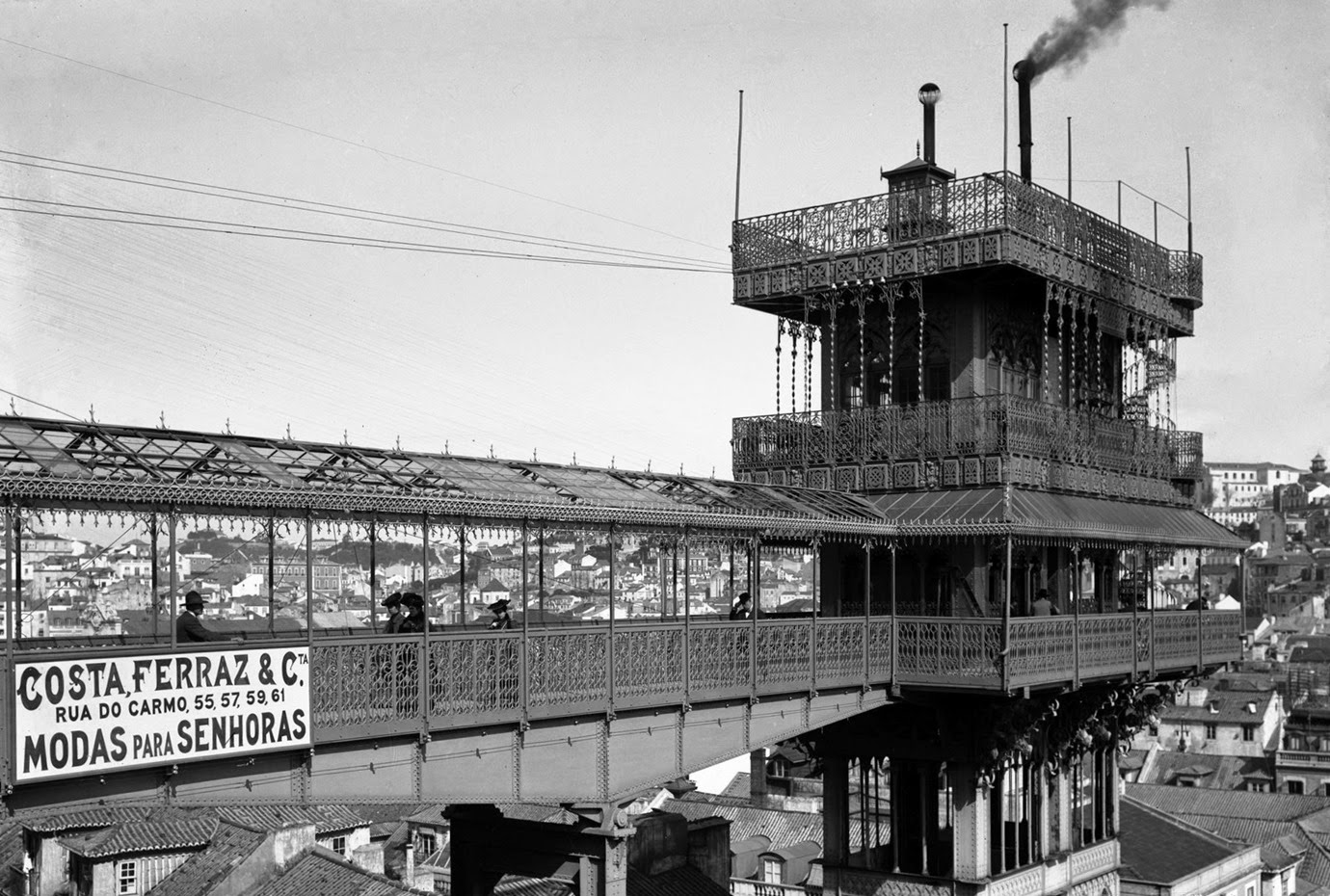 Upper level of the Santa Justa public elevator, in the city of Lisbon, in Portugal. The smoke coming from the chimnee is being produced by the steam engine, that was replaced by a electric system on 1907.